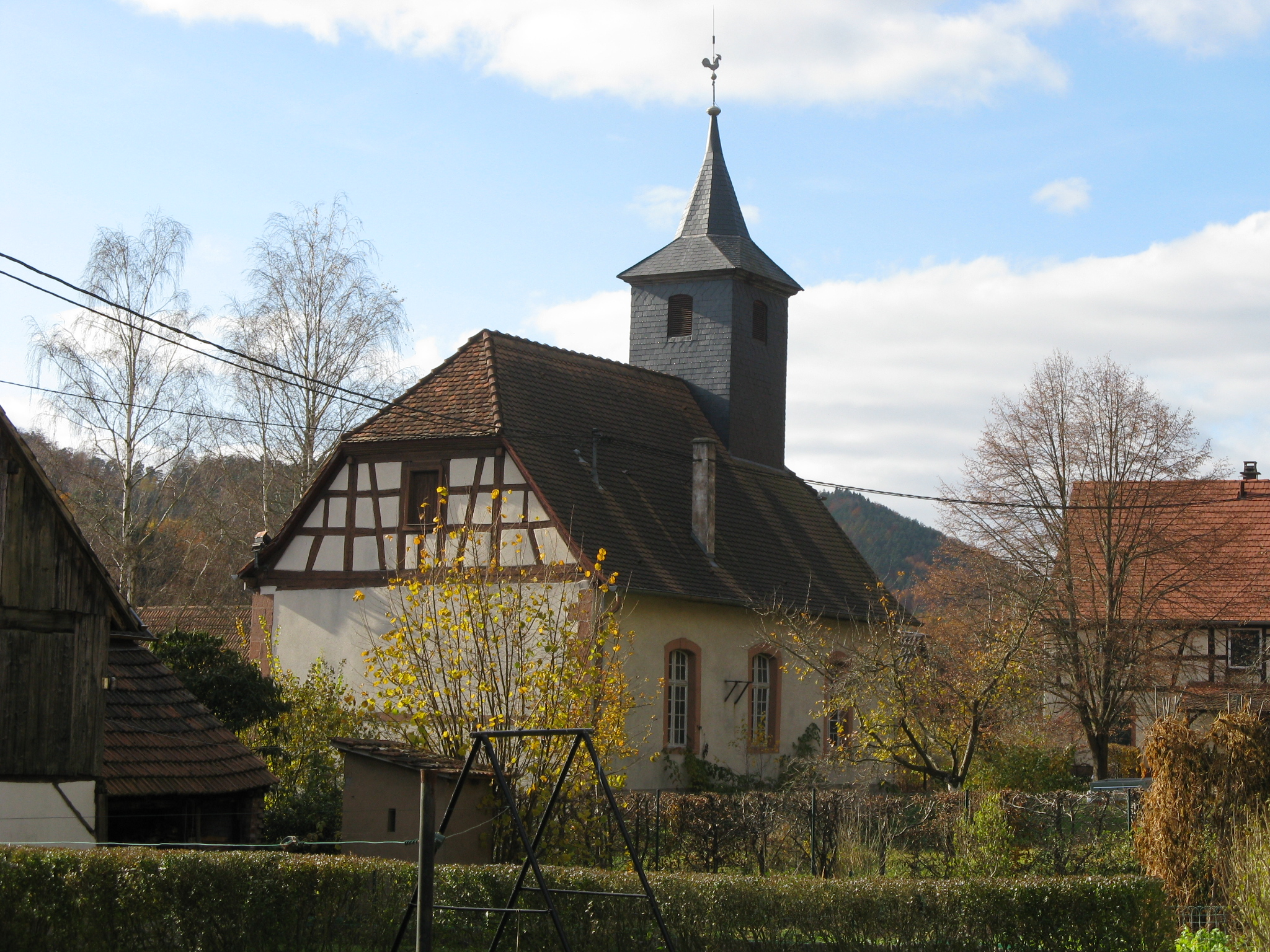 Protestant Church, Obersteinbach, Alsace